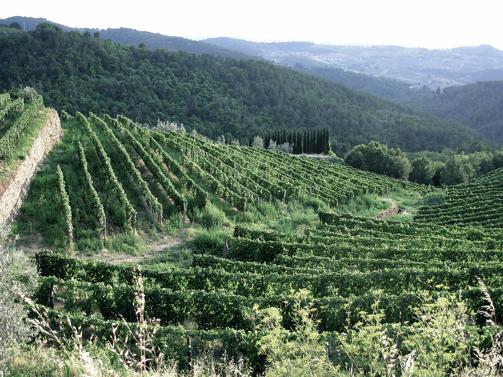 A vineyard in Tuscany.